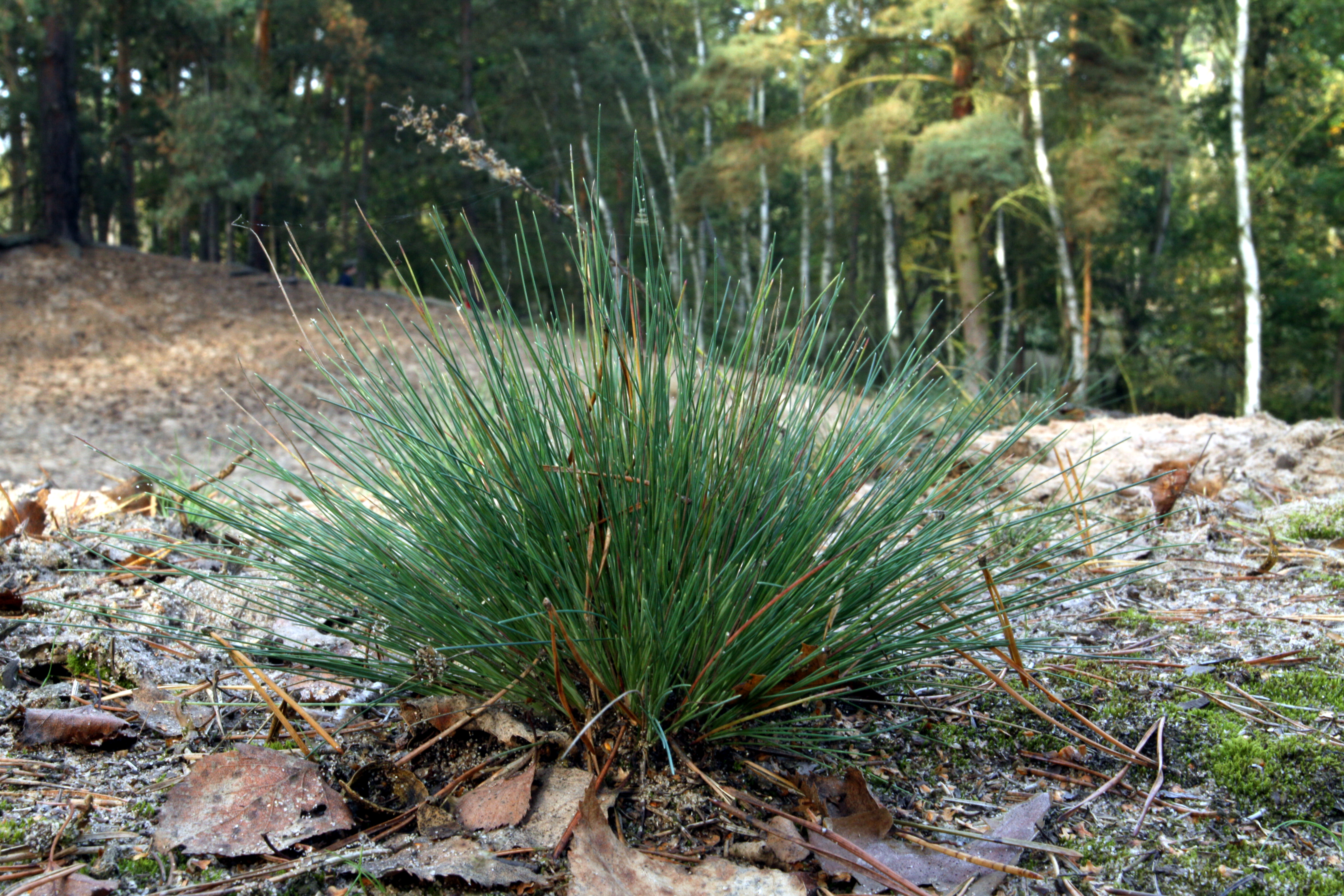 Corynephorus canescens. Natural monument Písečný přesyp u Osečka in Nymburk District, Czech Republic - Google Maps - Google Earth